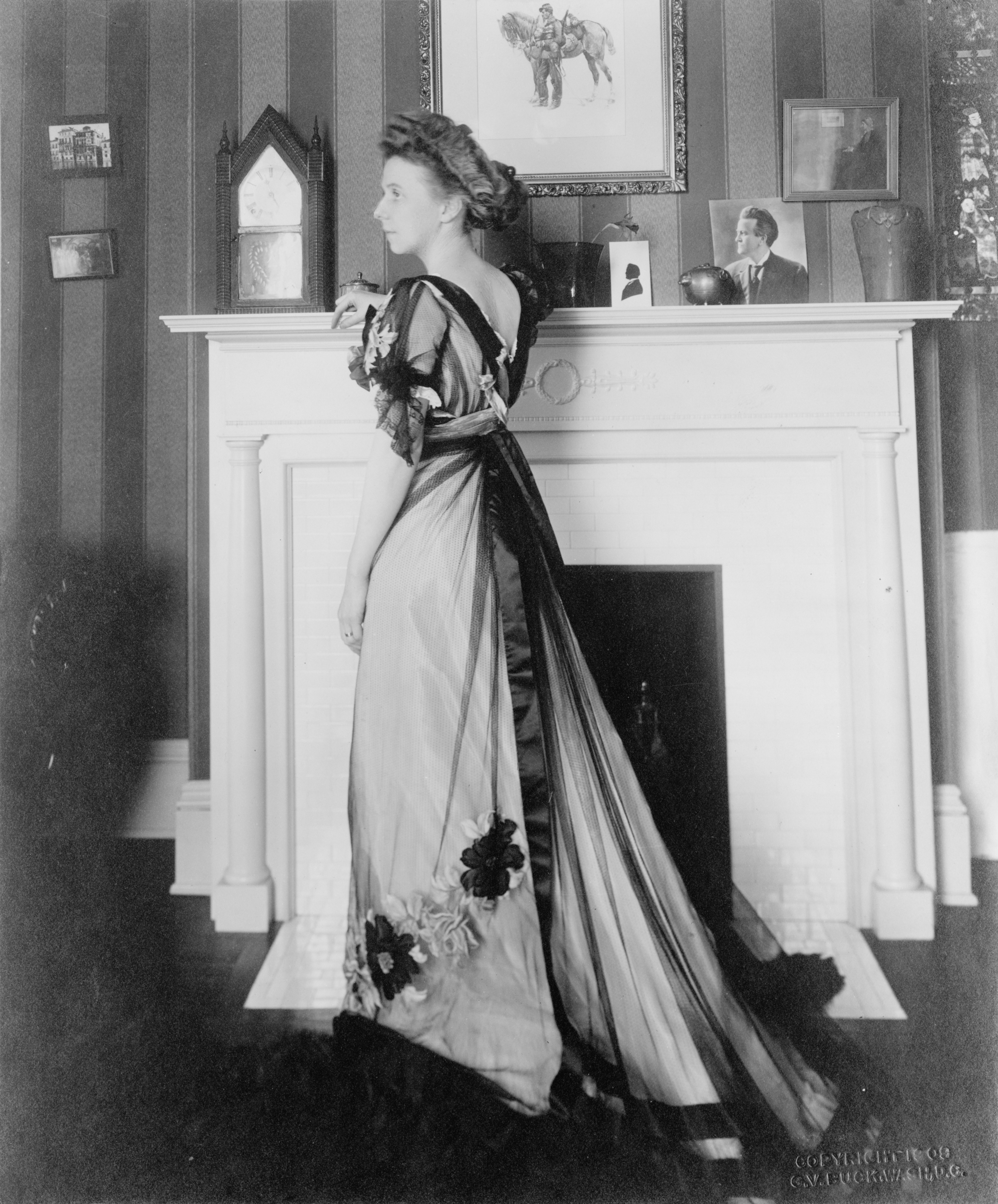 Mary McConnell Borah, full-length portrait, in gown, posed leaning on a fireplace mantel